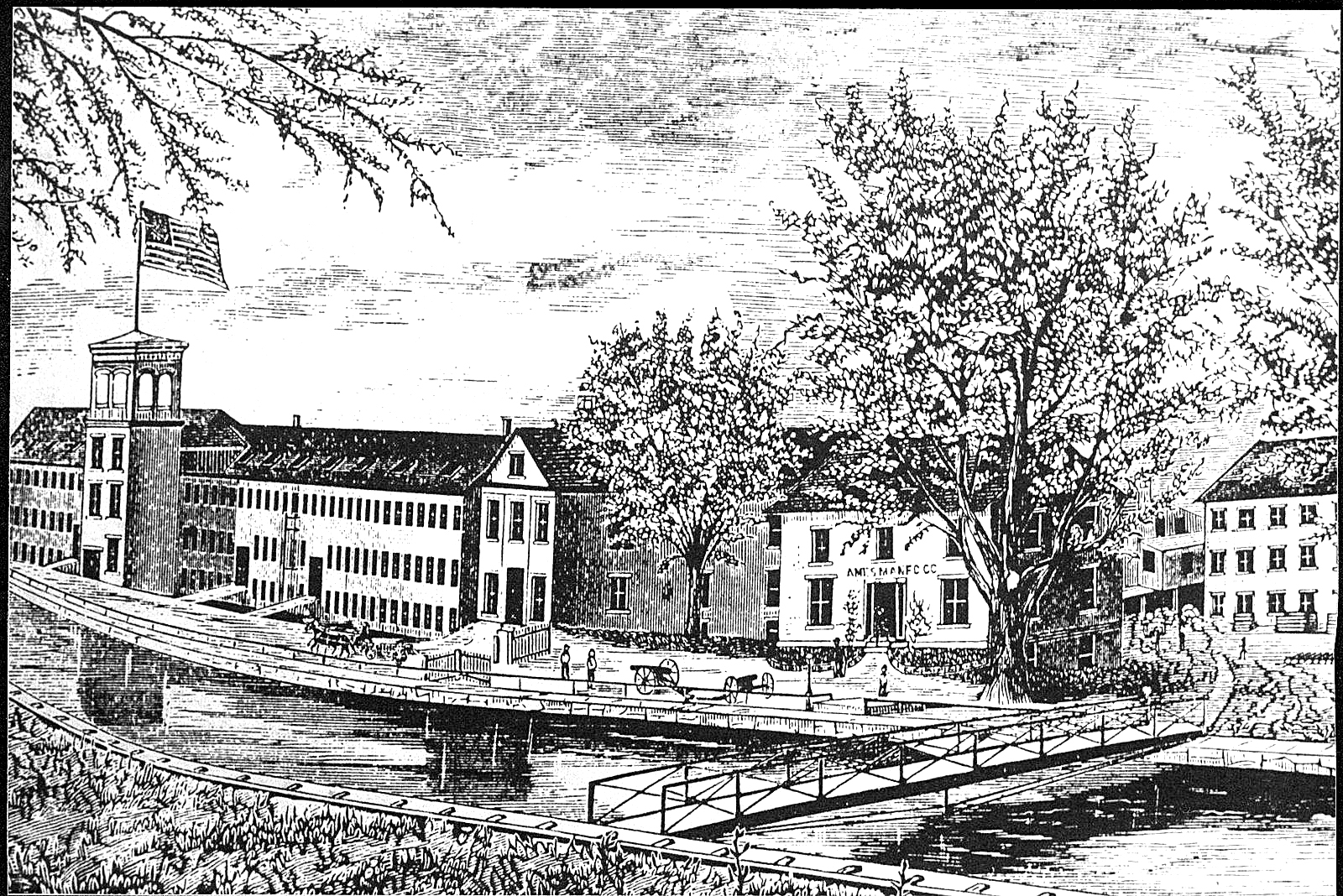 Ames manufacturing company Chicopee Massachusetts woodcut. Date unknown.